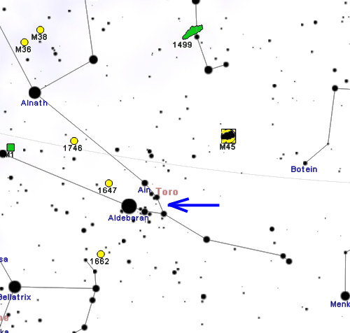 Hyades map